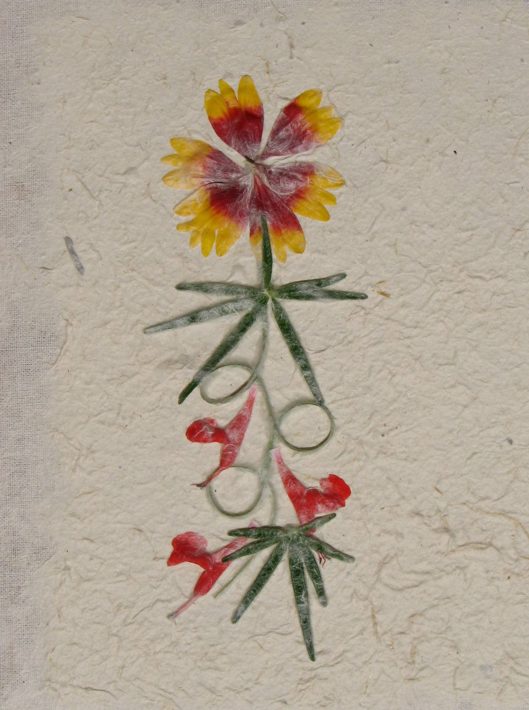 Antaimoro paper using a real fresh flowers (not pressed flowers), Ambalavao, Madagascar